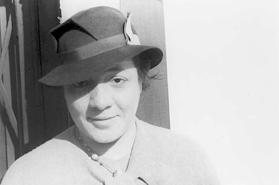 Ada "Bricktop" Smith.